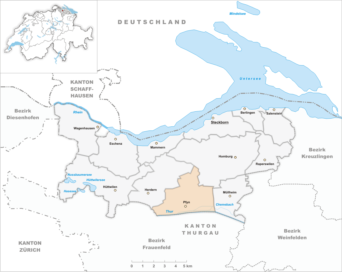 Municipality Pfyn